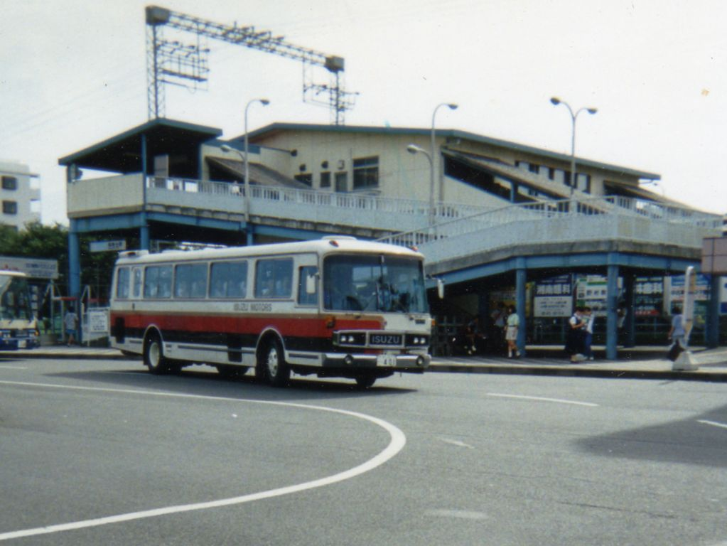 Shonandai Sta. east place and Isuzu Bus